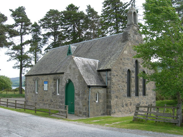 Church near Gorthleck